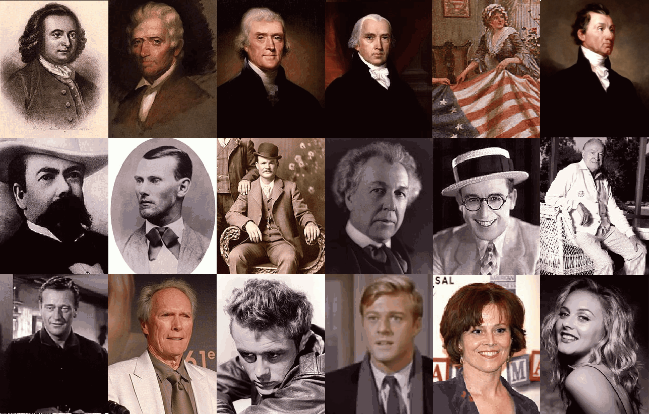 British Americans. Anyone can use these original photos themselves among others and make another collage of (British-American) people themselves or remix as they wish, as long as they give the correct source and usage/Copyright given. Dont delete the photos, if one becomes unusable due to copyright, please dont delete, just replace the photo or i will.